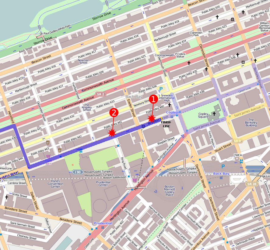 2013 Boston Marathon bombings map. The first bomb exploded at 671-673 Boylston Street, Boston, MA (42.349886, -71.078864): "MacDonald said one explosion had happened in front of the Marathon Sports store at 671-673 Boylston and the windows were blown out at a LensCrafters store, where 'the sidewalk is loaded with blood.'" 'Explosions rock Boston Marathon finish line; dozens injured', The Boston Globe. April 15, 2013 See also[1] The marathon route is shown in dark blue, the finish line in yellow, and the area for runners only is in lighter blue. The family meeting area is in lighter yellow. See Boston Marathon Course Maps. This map of Boston was created from OpenStreetMap project data, collected by the community. This map may be incomplete, and may contain errors. Don't rely solely on it for navigation.